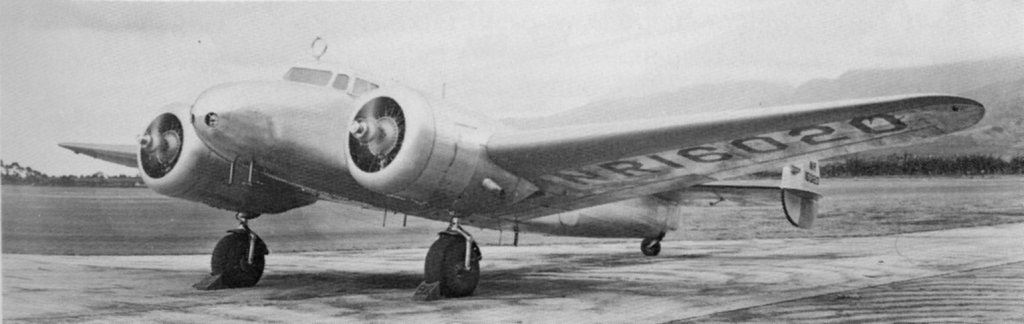 Amelia Earhart's Lockheed Model 10 Electra, at Oakland, CA on March 20, 1937. Scanned from Lockheed Aircraft since 1913, by René Francillon. Photo credit USAF.